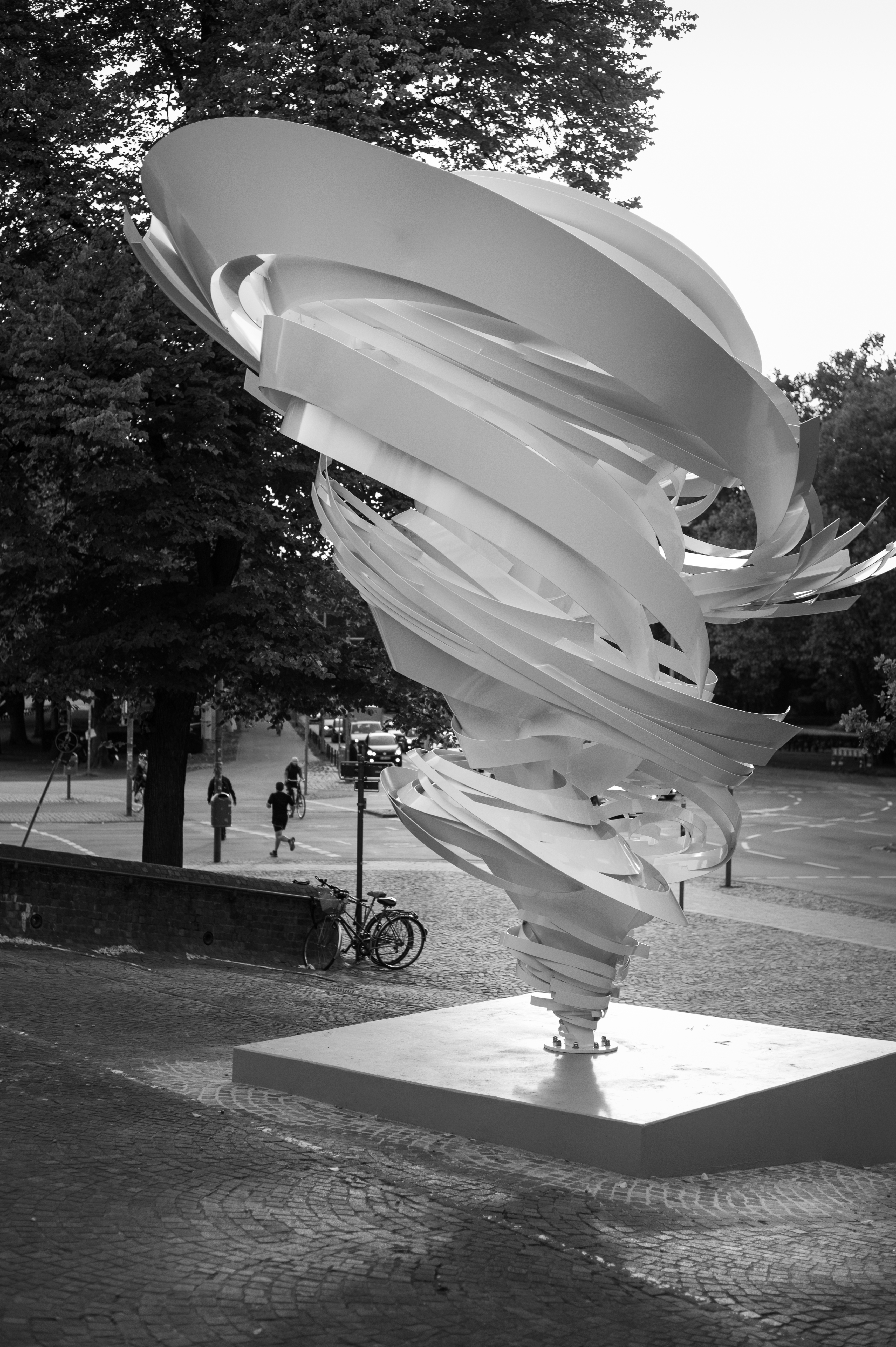 Sculpture "Another Twister (João)" by american sulpturer Alice Aycock (born 1946), installed in front the entrance of Sprengel Museum Hannover. It is located at Kurt-Schwitters-Platz square in Suedstadt quarter of Hannover, Germany.